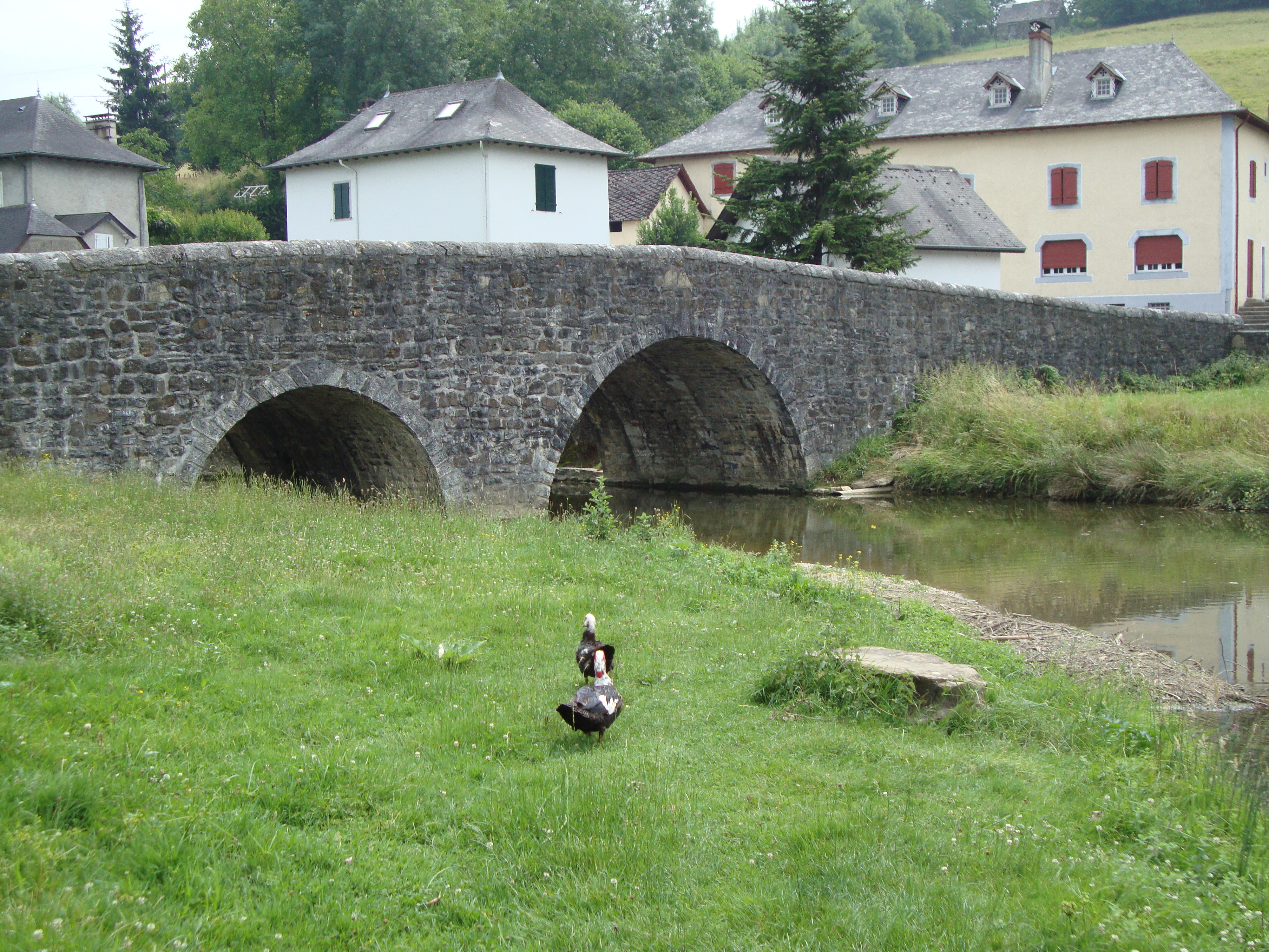 Ordiarp (Pyr-Atl, Fr) road bridge over the Arangorena river